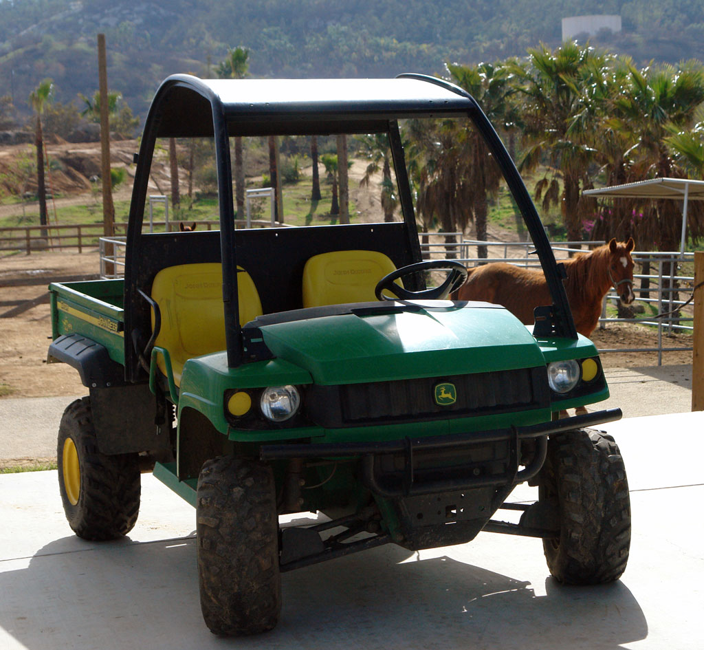 John Deere Gator vehicle and horse